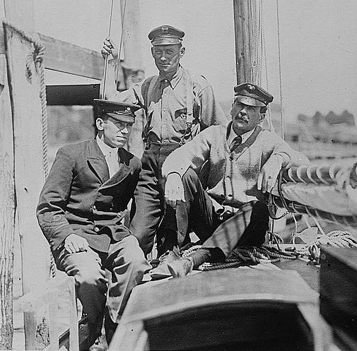 Frederick B. Thurber and Theodore R. Goodwin and Thomas Fleming Day in 1911 [between 1910 and 1915] 1 negative : glass ; 5 x 7 in. or smaller. Notes: Title from unverified data provided by the Bain News Service on the negatives or caption cards. Forms part of: George Grantham Bain Collection (Library of Congress). Format: Glass negatives. Repository: Library of Congress, Prints and Photographs Division, Washington, D.C. 20540 USA, General information about the Bain Collection is available at Persistent URL: Call Number: LC-B2- 2207-9